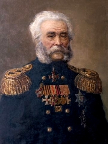 Pjotr F. Anjou (Anjoux) (1796— 1869) — Russian naval officer, participant in the Battle of Navarino (1827), famous seafarer, legendary Arctic explorer, Admiral of the Russian fleet (1866).